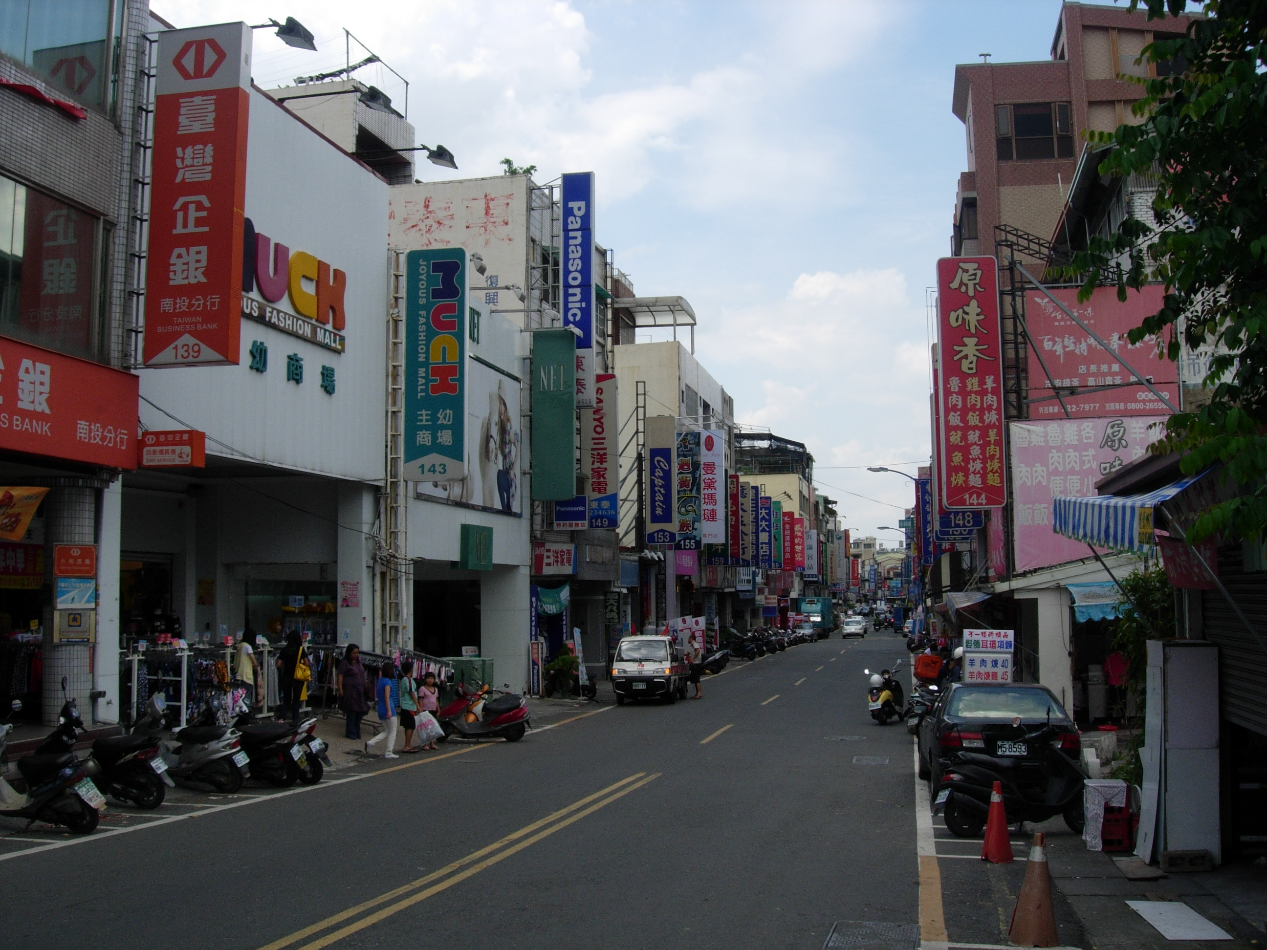 NantouCityFusinRd